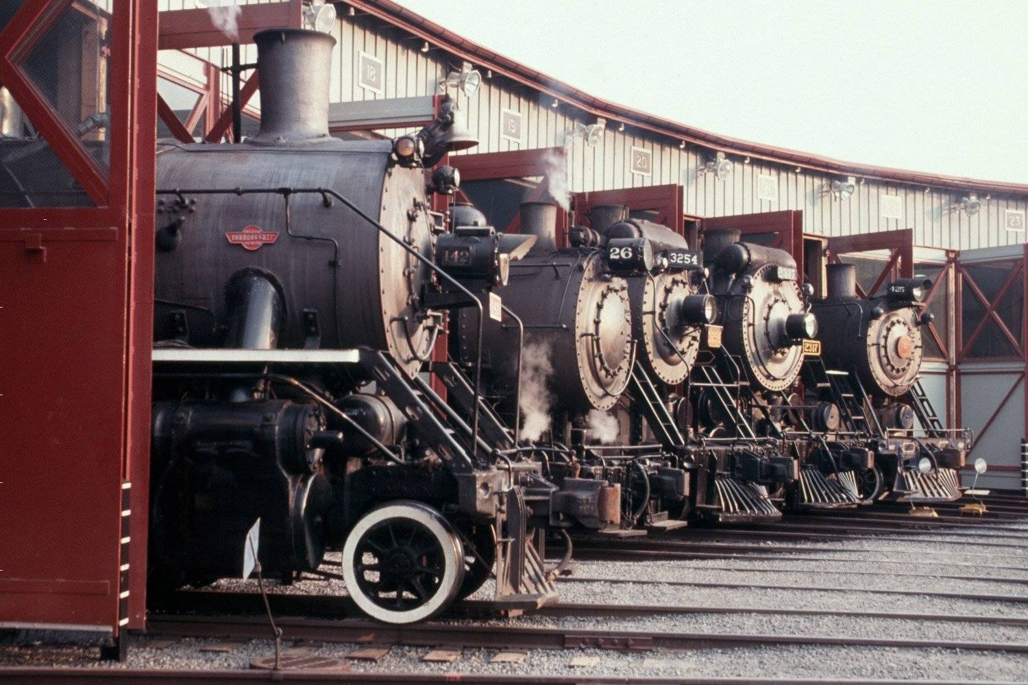 "Five in the Roundhouse" a National Park Service photo from the Steamtown National Historic Site website. Steamtown National Historic Site has been listed on the NRHP since October 30, 1986. It's located at 150 South Washington Avenue, Scranton, Pennsylvania Locomotives are (Left-to-right): NYS&W 142, Baldwin #26, CN 3254, CP 2317, and RBMN 425